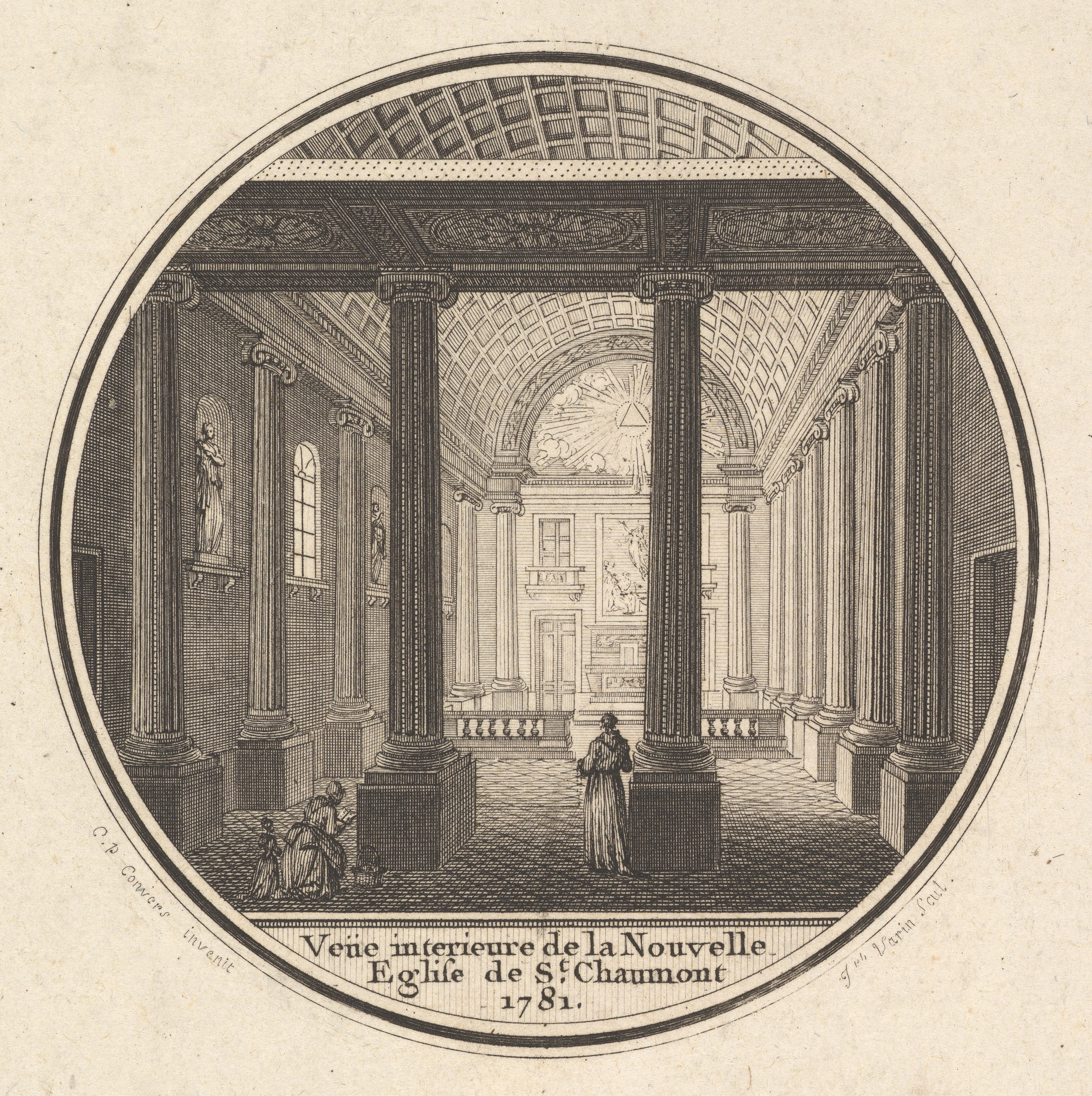 The reverse of the Print of the Portrait Medal of Fortunée-Marie d'Est, Princesse de Conti is of the interior of the Church of Saint-Charmont, Paris, which was designed by the architect, Claude-Pierre Convers.